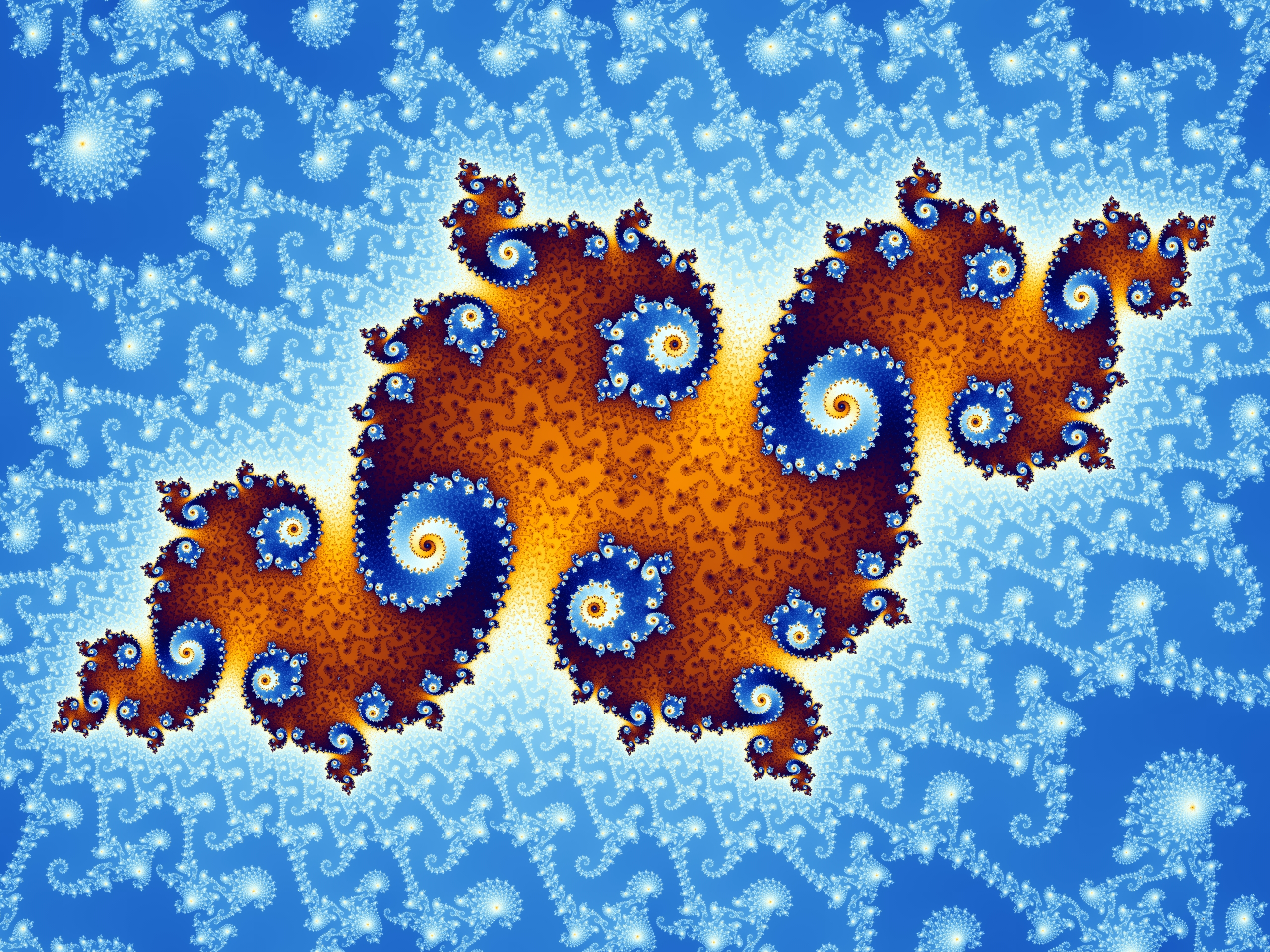 Partial view of the Mandelbrot set. Step 14 of a zoom sequence: On the first sight these islands seem to consist on infinitely many parts like Cantor sets, as it is actually the case for the corresponding Julia set Jc. Here they are connected by tiny structures so that the whole represents a simply connected set. These tiny structures meet each other at a satellite in the center which is too small to be recognized at this magnification. The value of c for the corresponding Jc is not that of the image center but has relative to the main body of the Mandelbrot set the same position as the center of this image relative to the satellite shown in zoom step 7. Coordinates of the center: Re(c) = -.743,643,887,037,151, Im(c) = .131,825,904,205,330 Horizontal diameter of the image: .000,000,000,051,299 Magnification relative to the initial image: 59,979,000,000